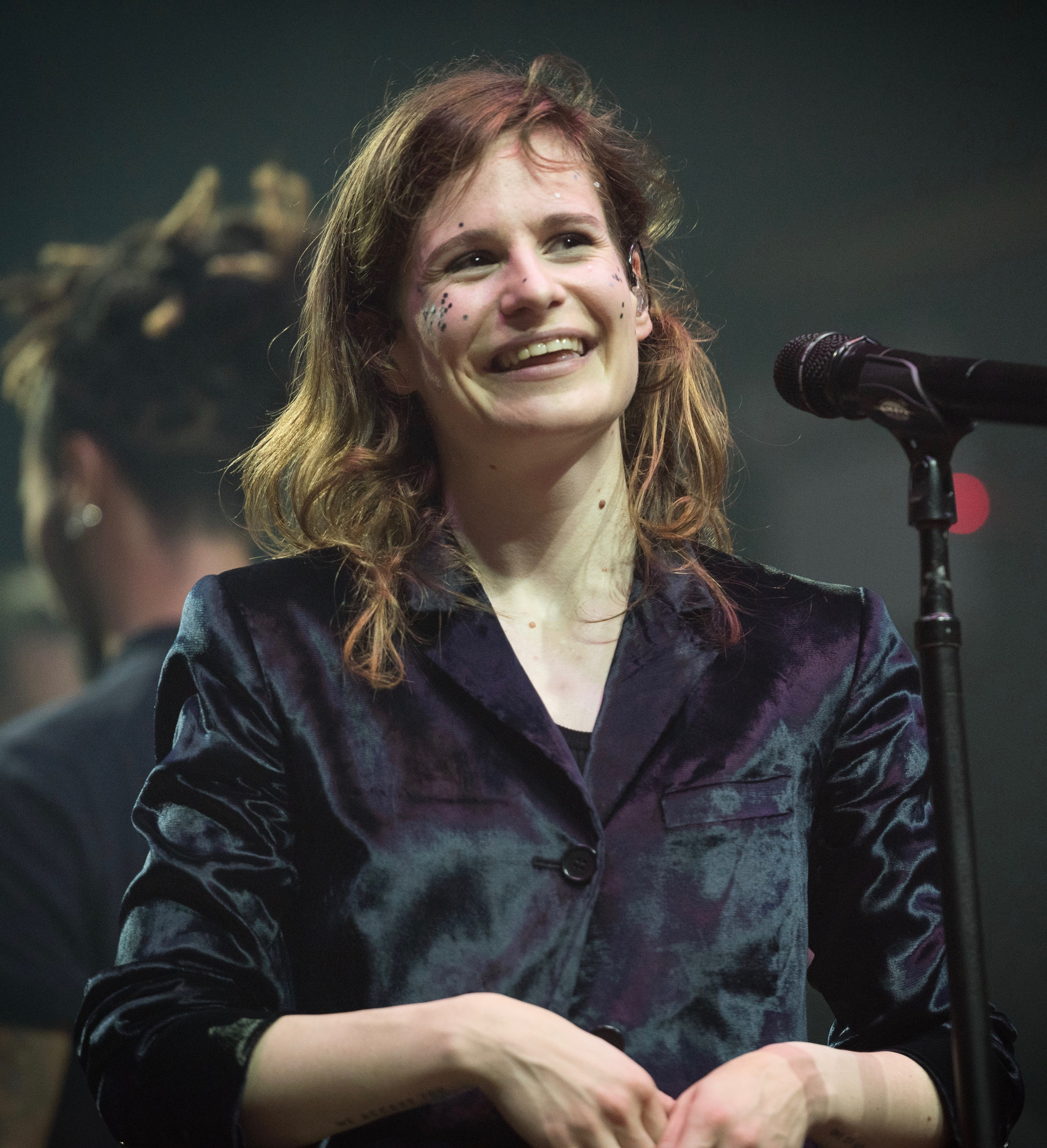 Christine and the Queens performing in New York City during 2015